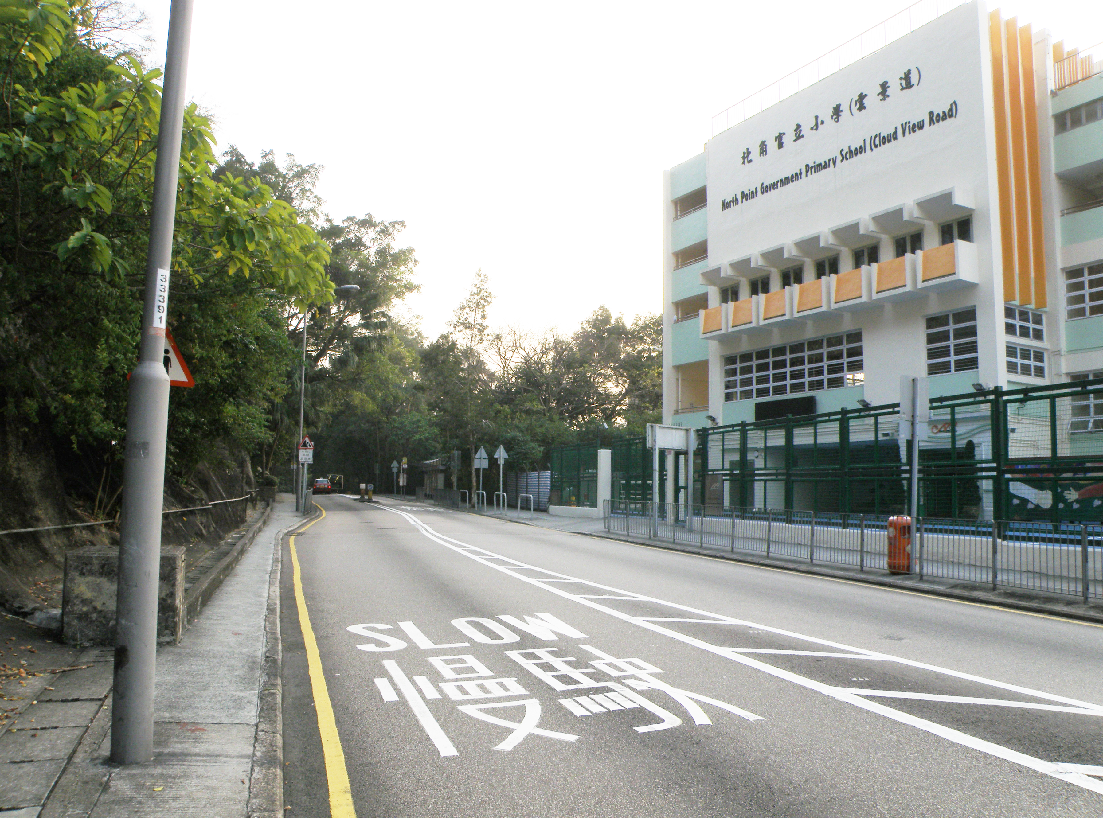 Yee King Road in Braemar Hill, Hong Kong.